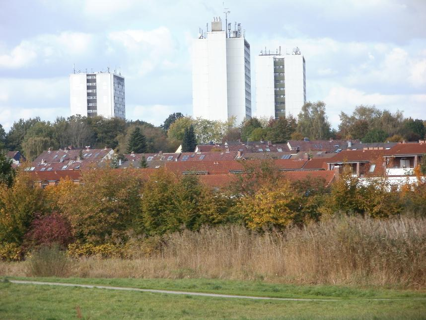 Hamburg (Langenbek), Germany: Panorama